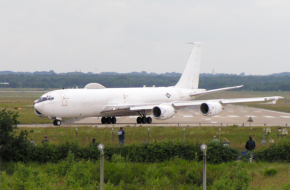 US Navy Boeing E-6B Mercury (162783), Geilenkirchen AB, Germany